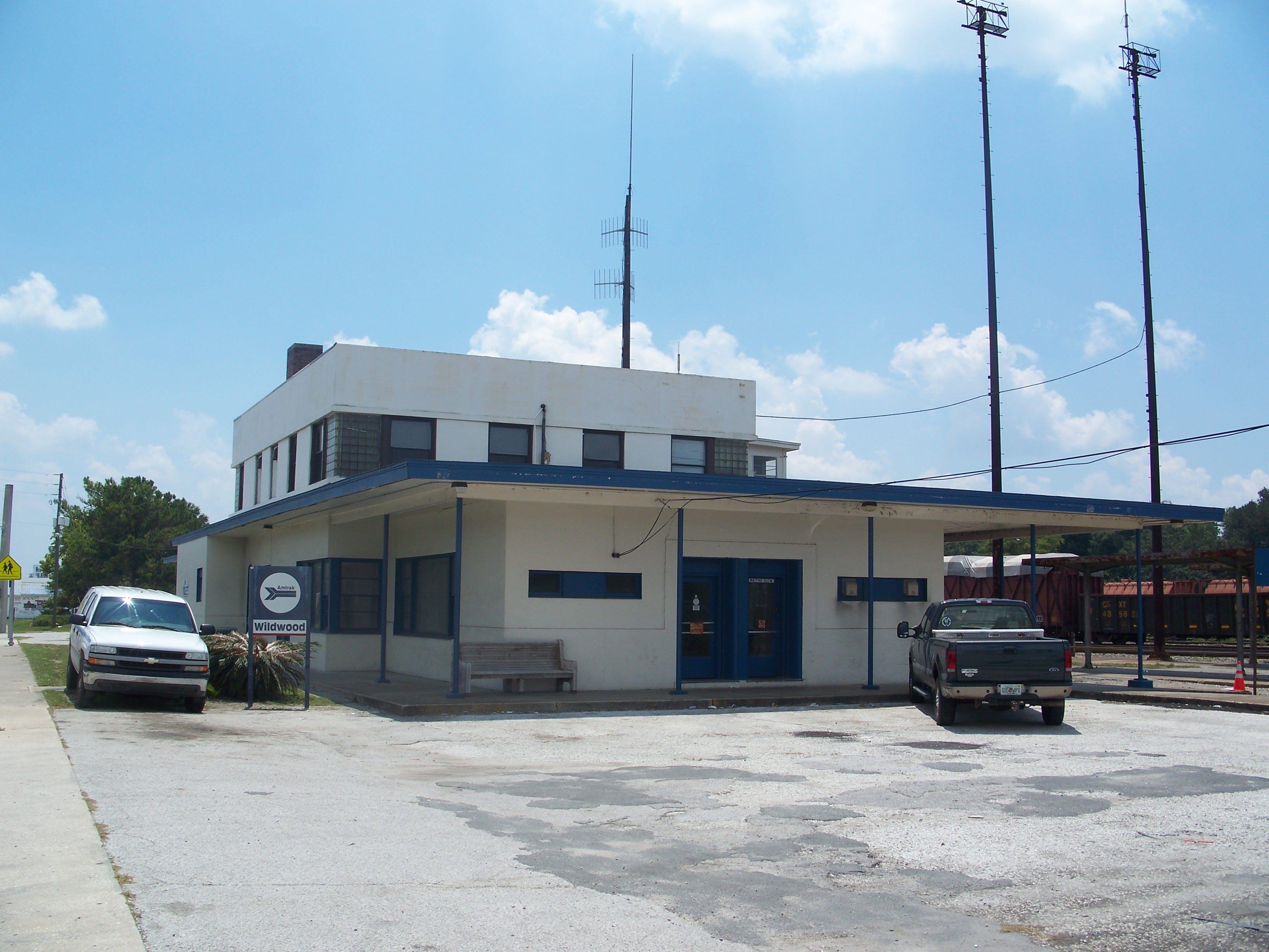 Wildwood, Florida: Former Amtrak station. Now a CSX station and maintenance area.